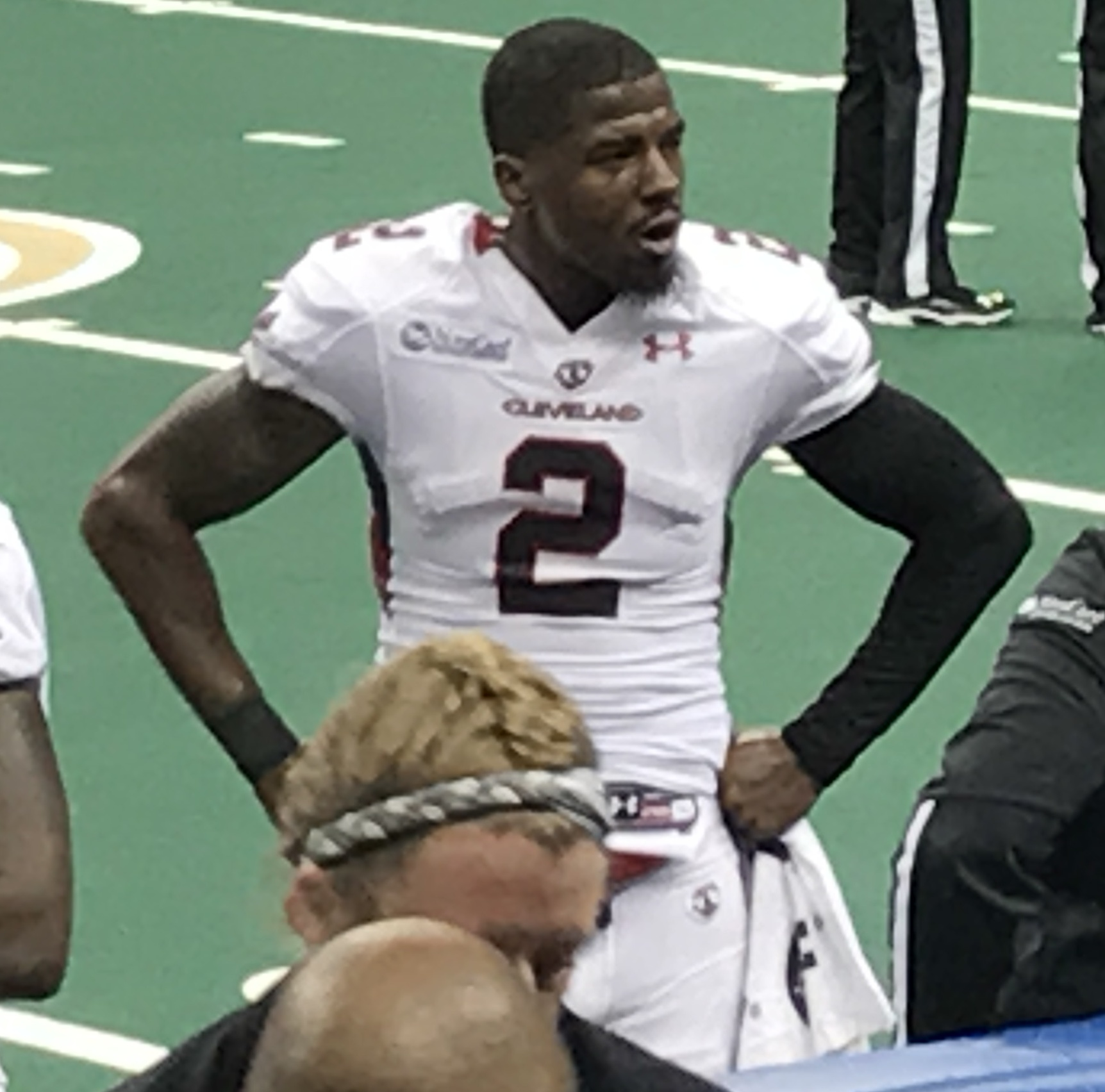 Arvell Nelson on the sidelines talking to Ron Selesky